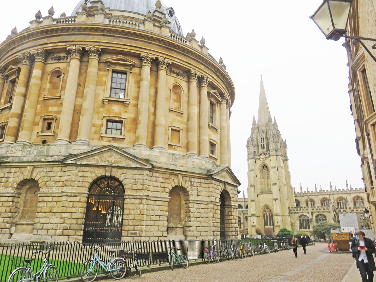 Radcliffe Camera and St Mary's